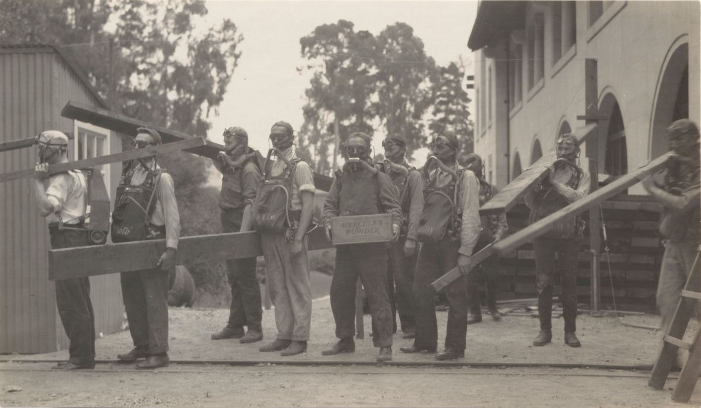 Photo of University of California, Berkeley students of the School of Mining at the entrance to Lawson Adit, a horizontal mine tunnel, or adit, on the UC Berkeley campus, near the Hearst Mining Building, dug directly through the Hayward Fault. The 1918 photo shows mining students engaged in mine rescue drill. One of the men is carrying a box from the Hercules Powder Company.